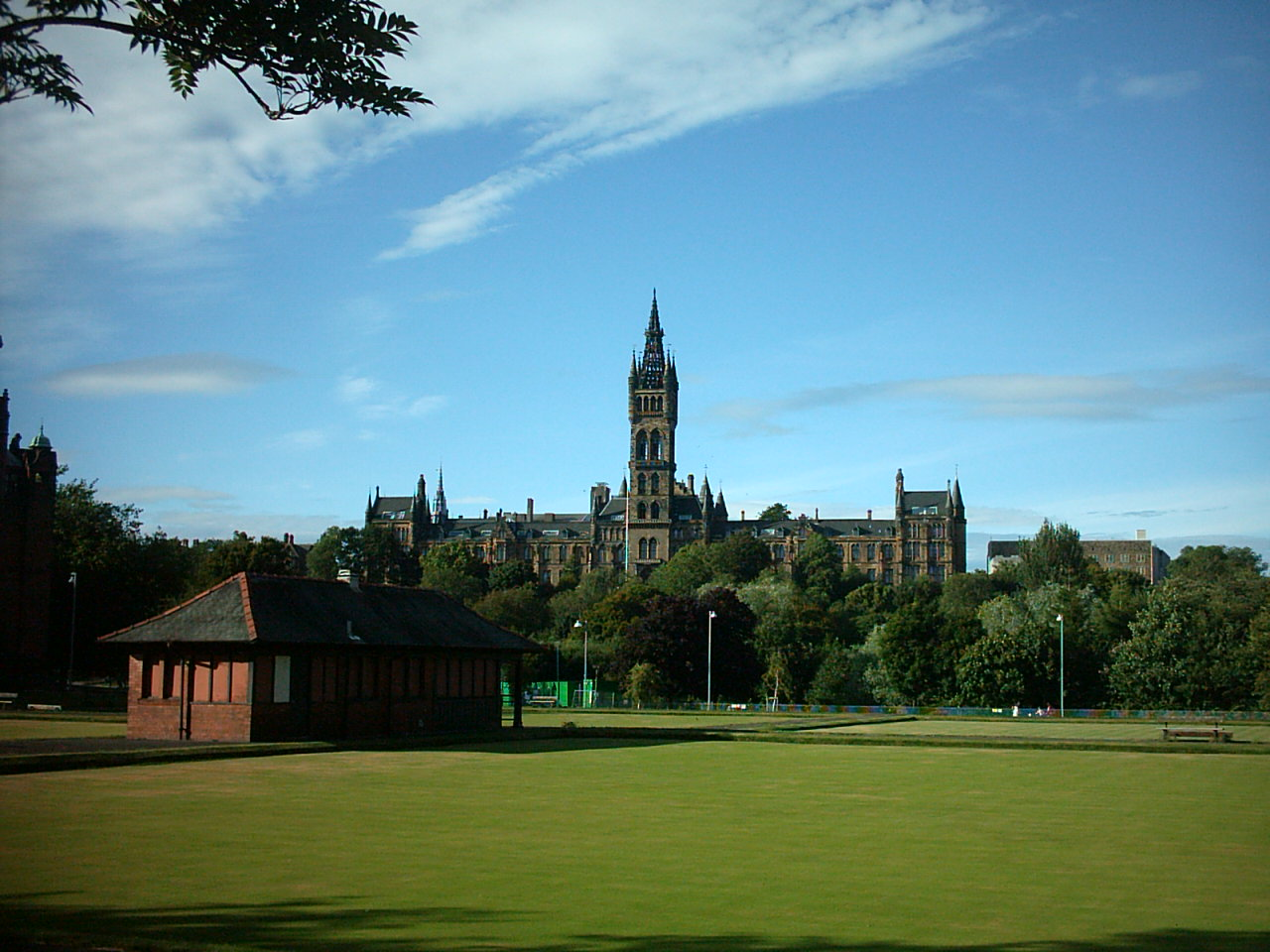 University of Glasgow